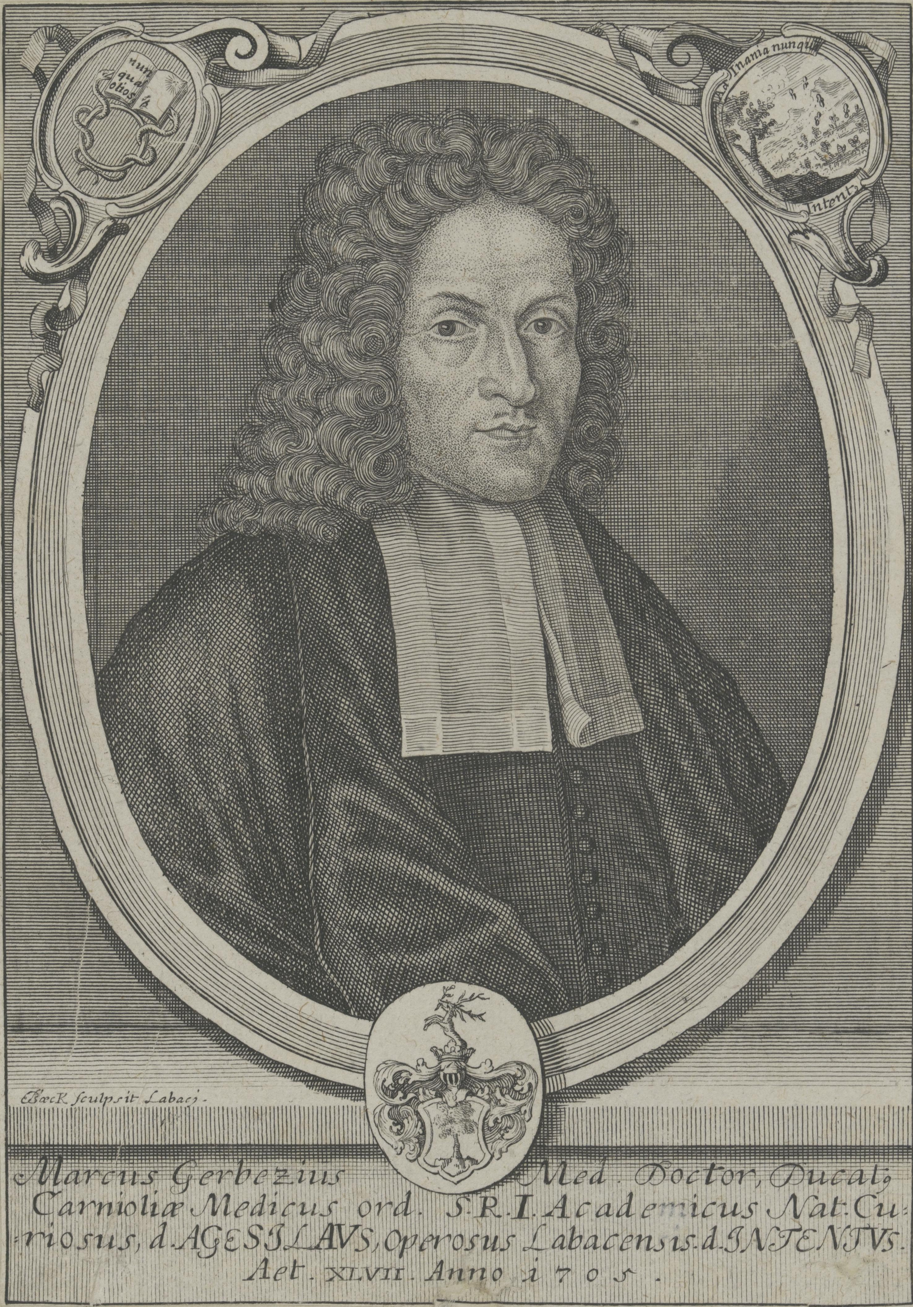 Marko Grbec (1658-1718), Slovenian physician